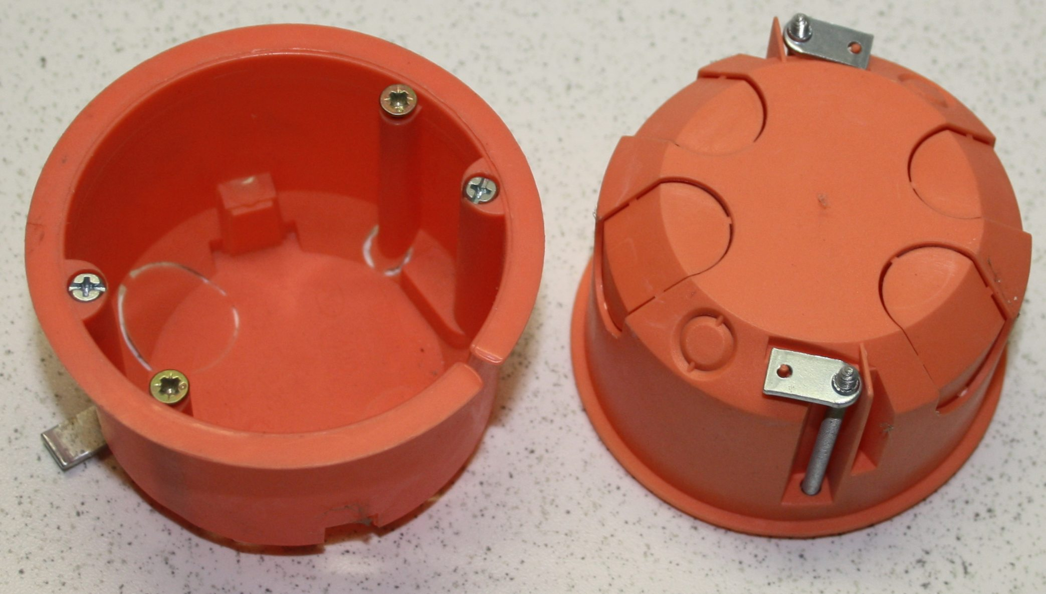 Junction box for gips plate wall